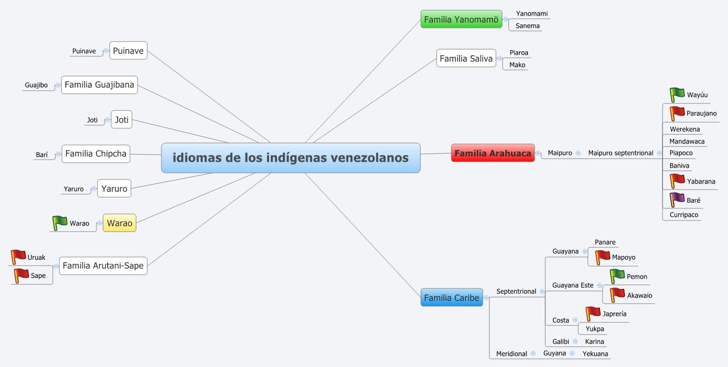 Languages of Venezuela